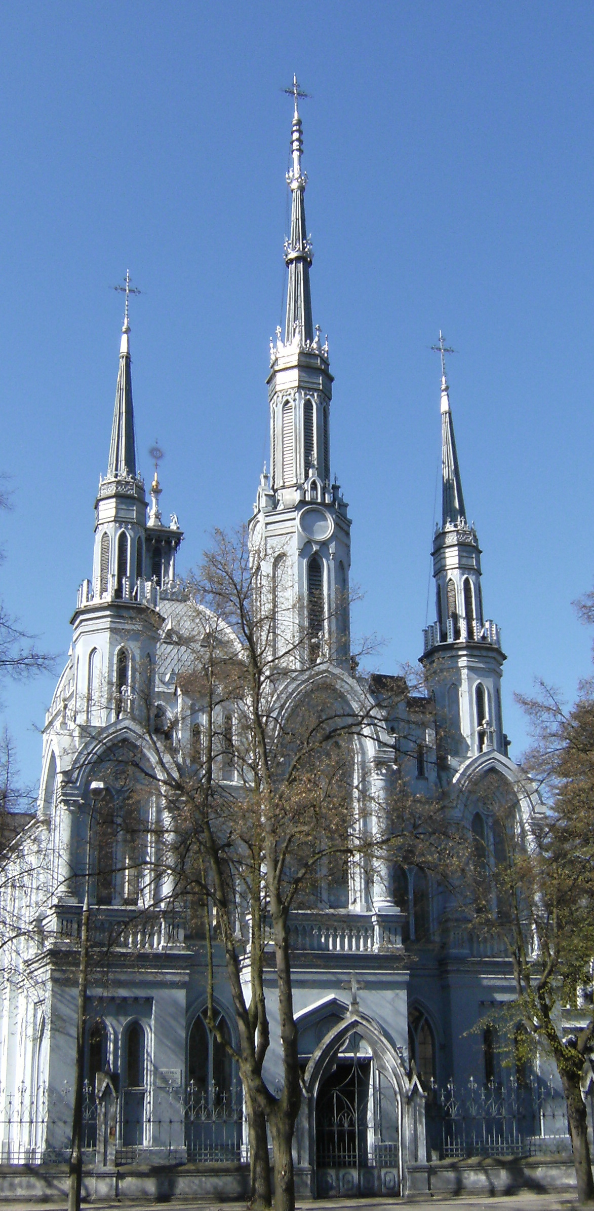 Old Catholic Mariavite Temple of Mercy and Charity in Plock